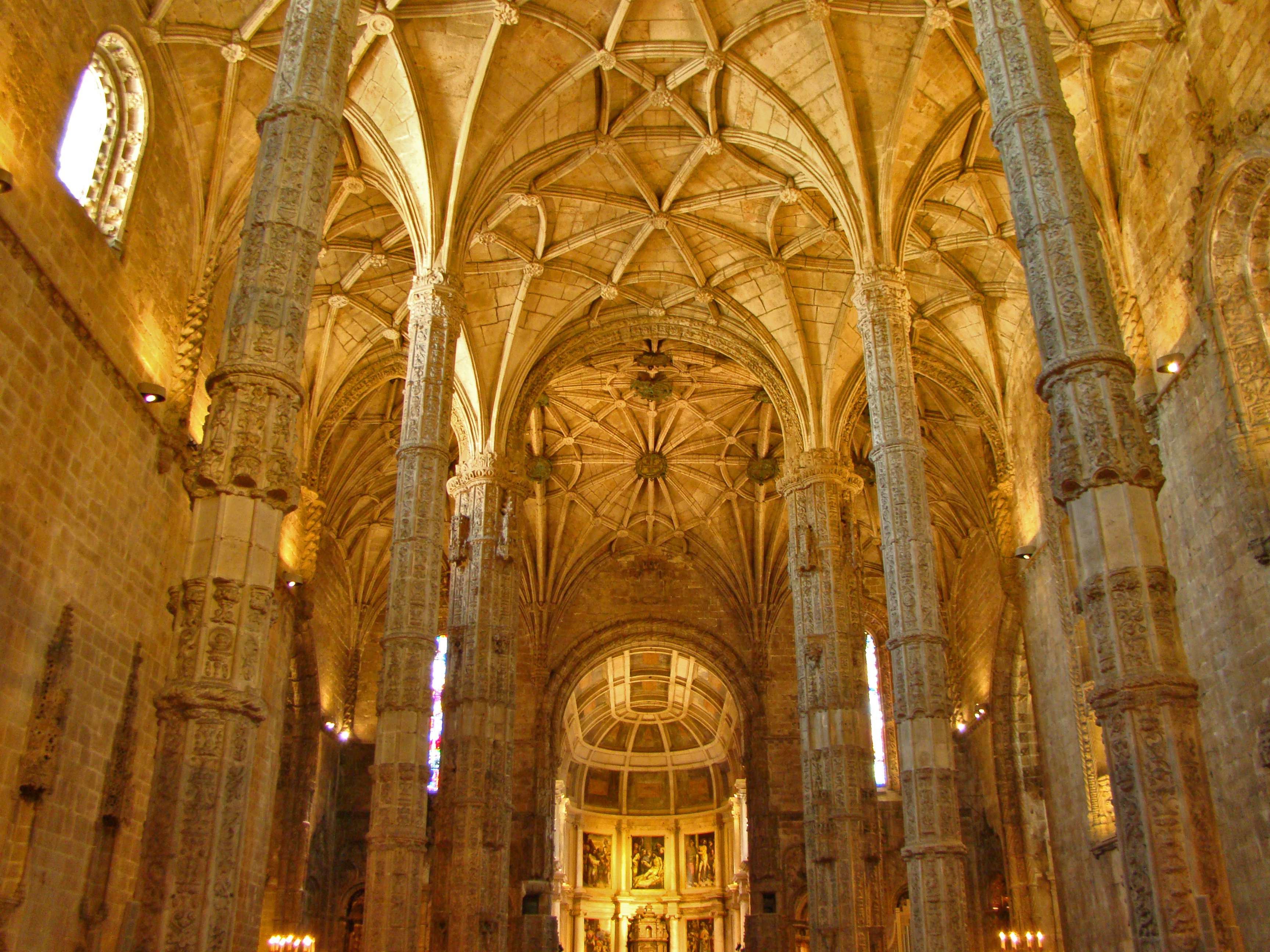 Inside Jerónimos Monastery